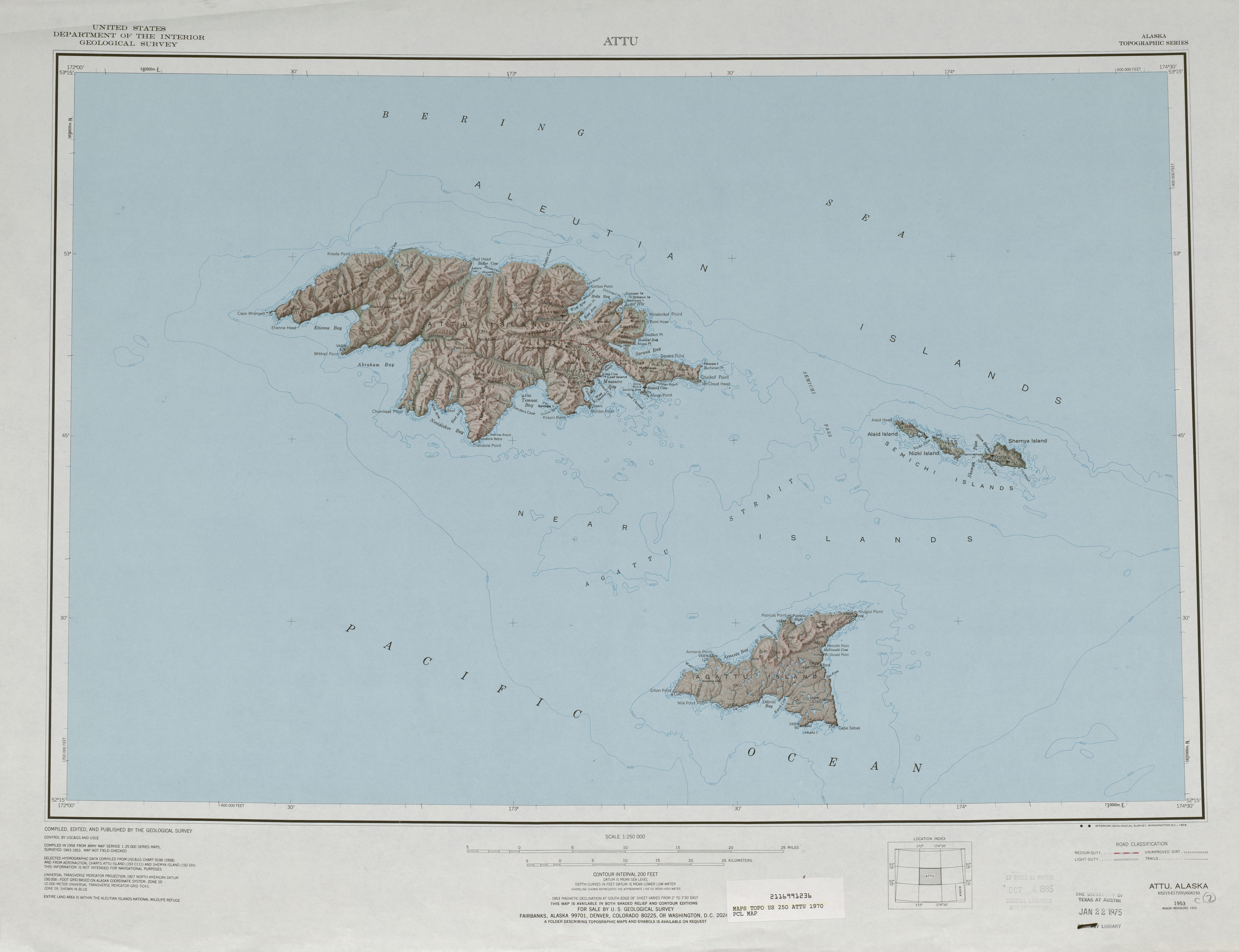 1:250,000 map sheet with Attu Island, Agattu Island, and Semichi Islands